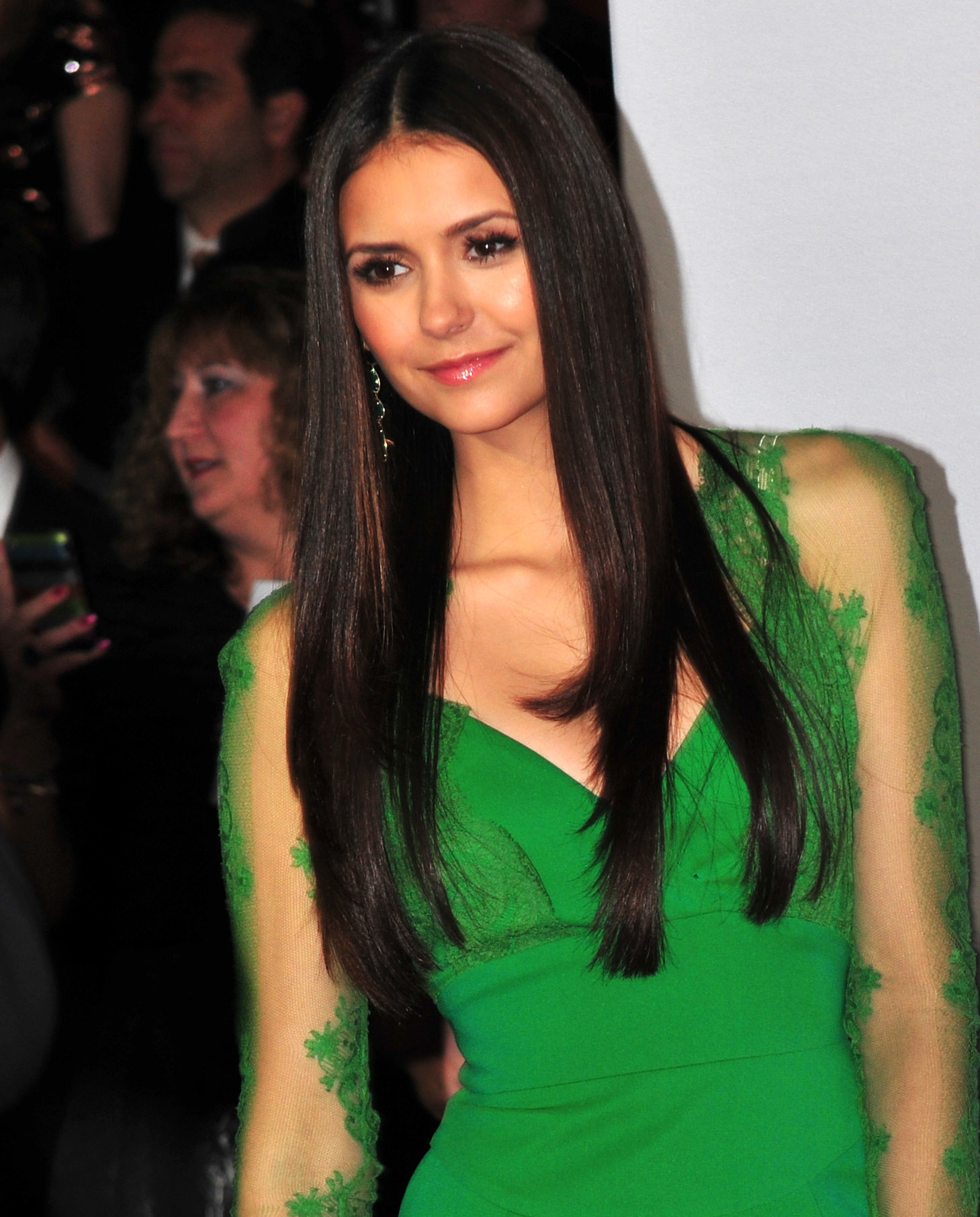 Nina Dobrev at the 38th People's Choice Awards, Red Carpet 2012.